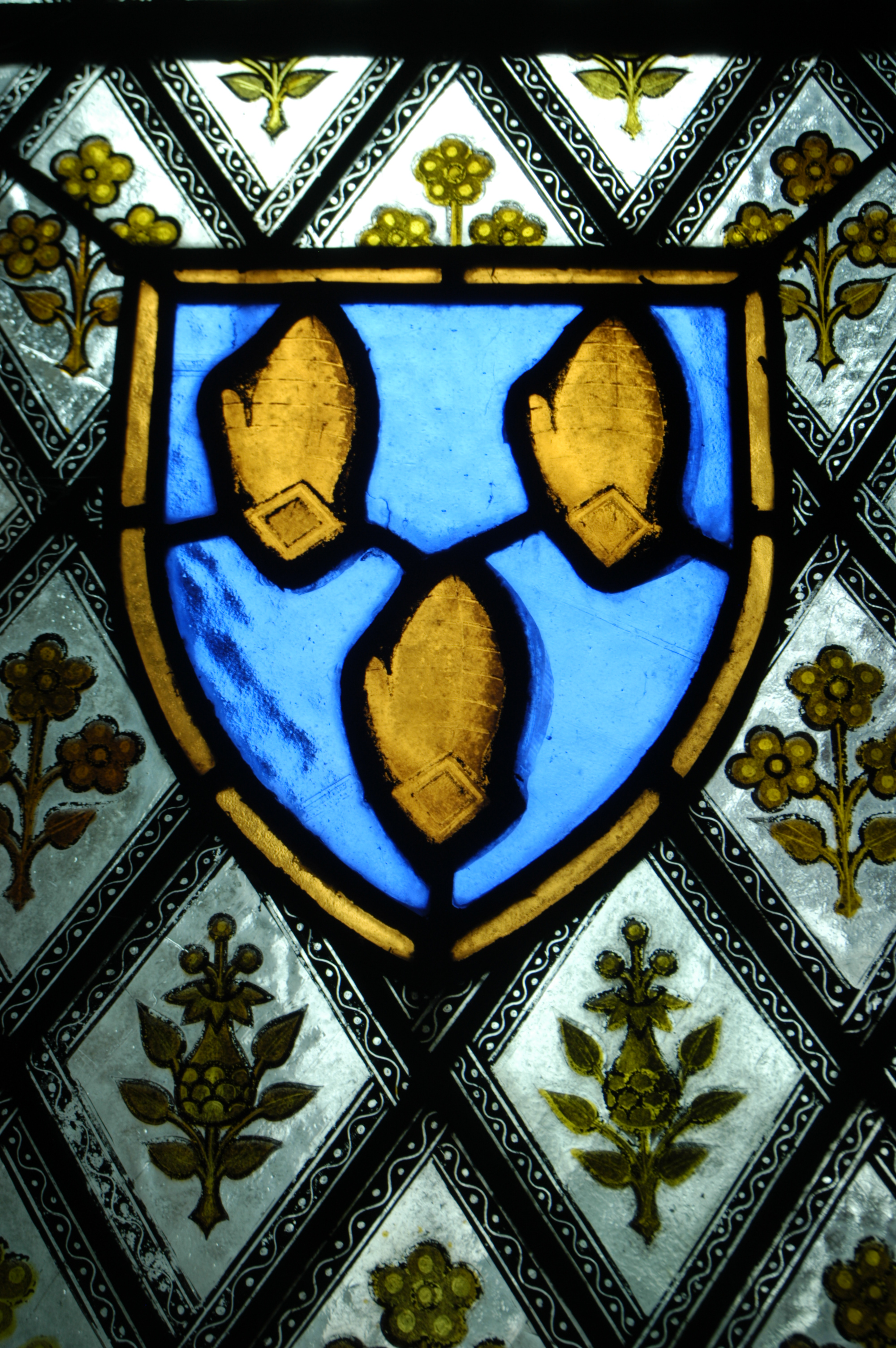 photo by Rodolph de Salis, me, Rodolph (talk), Fane shield in Fulbeck church, Lincolnshire.